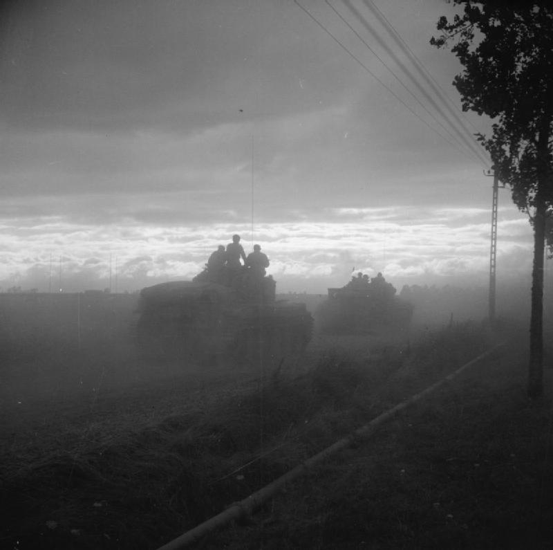 The British Army in Normandy 1944 Cromwell tanks of 7th Armoured Division silhouetted against the morning sky, as they move up at the start of Operation 'Bluecoat', the British offensive south-east of Caumont, 30 July 1944.